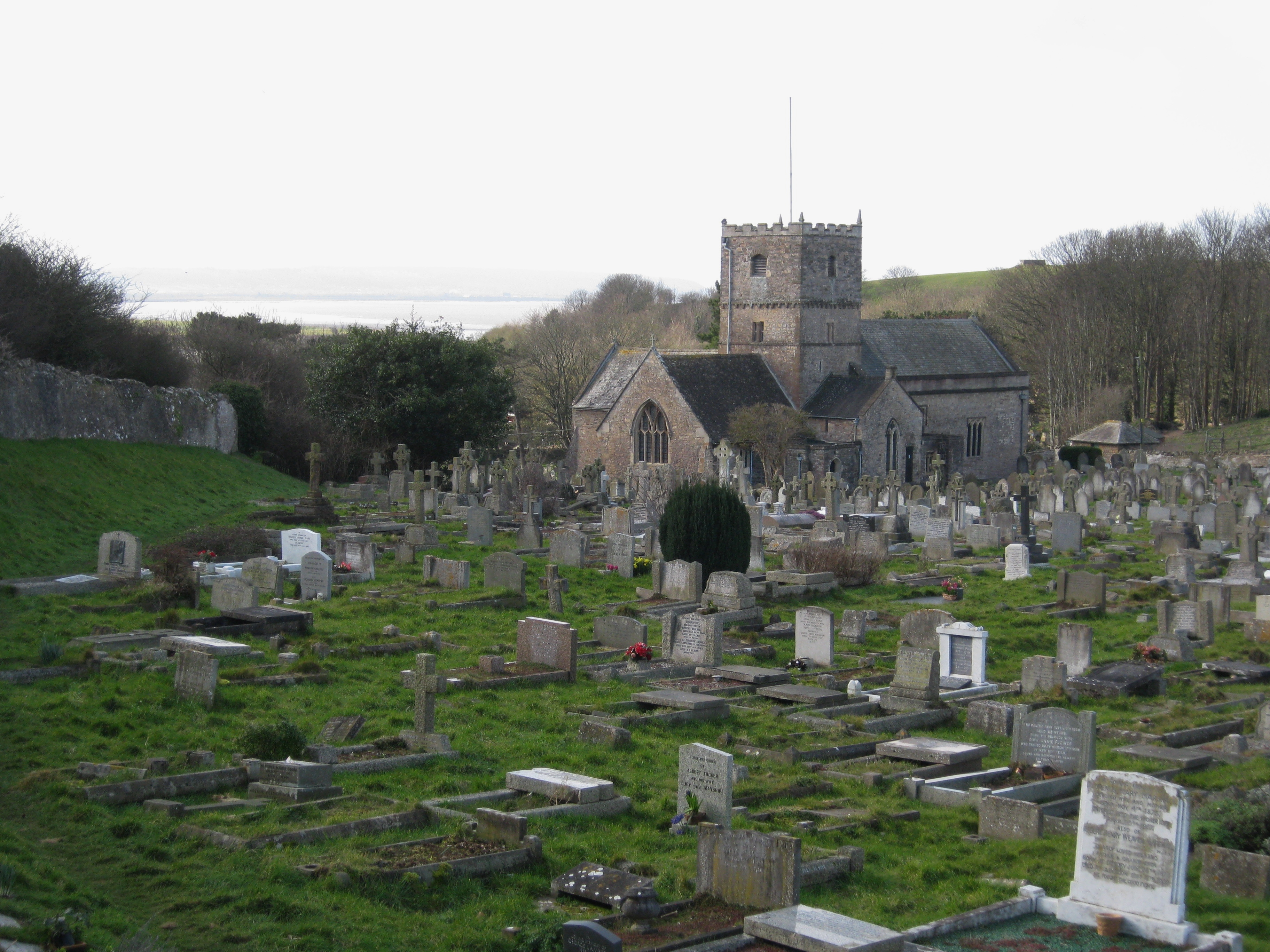 St. Andrews Church, Clevedon.